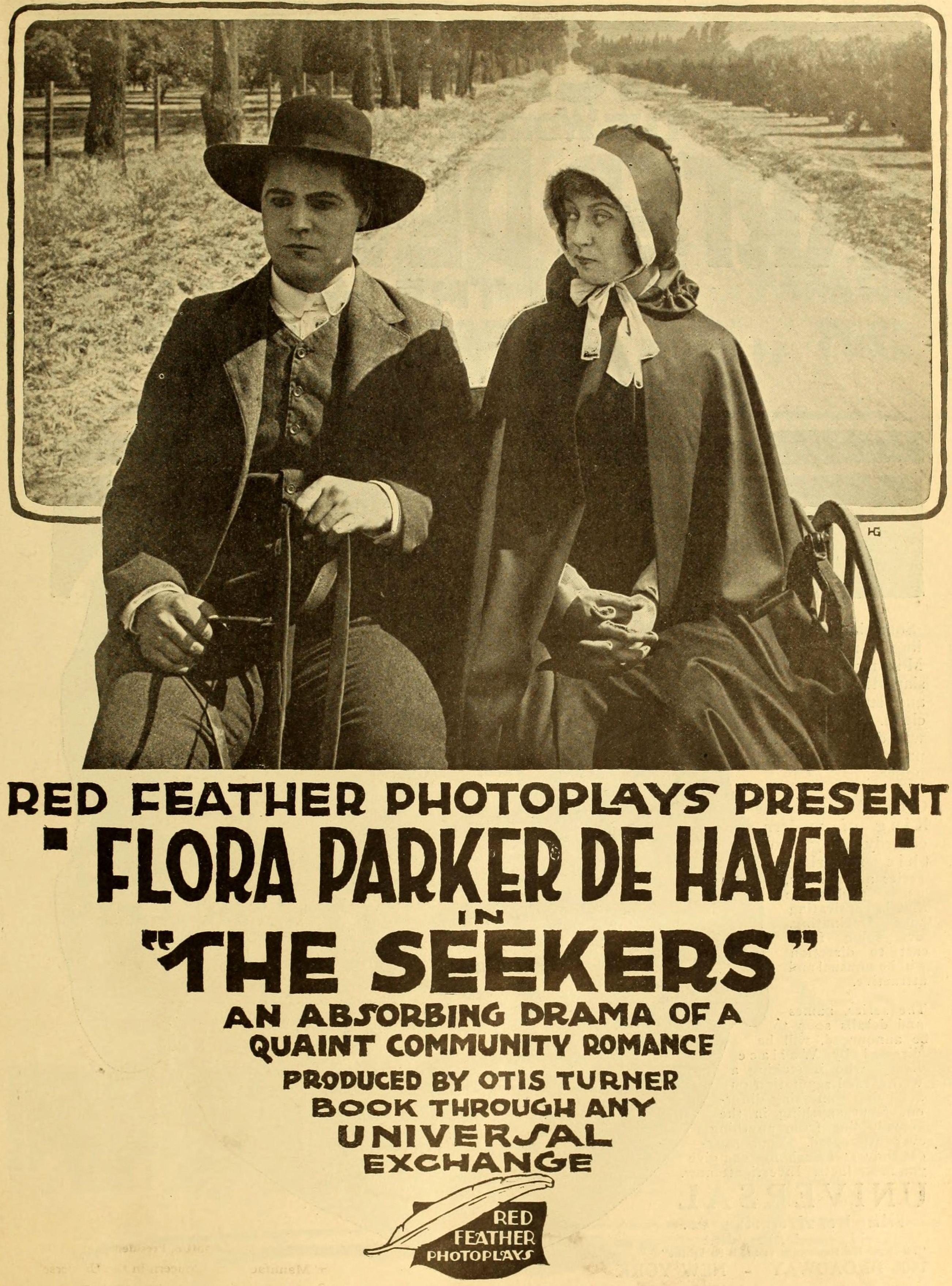 Template:1=Advertisement in The Moving Picture World for the American film The Seekers (1916).